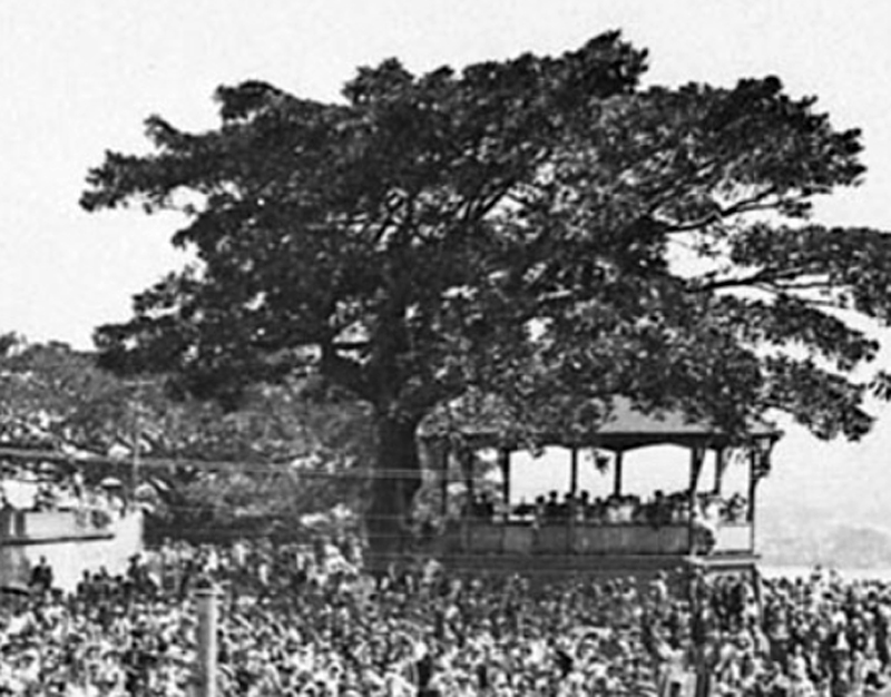 Rotunda at Observatory Hill, Sydney 1932